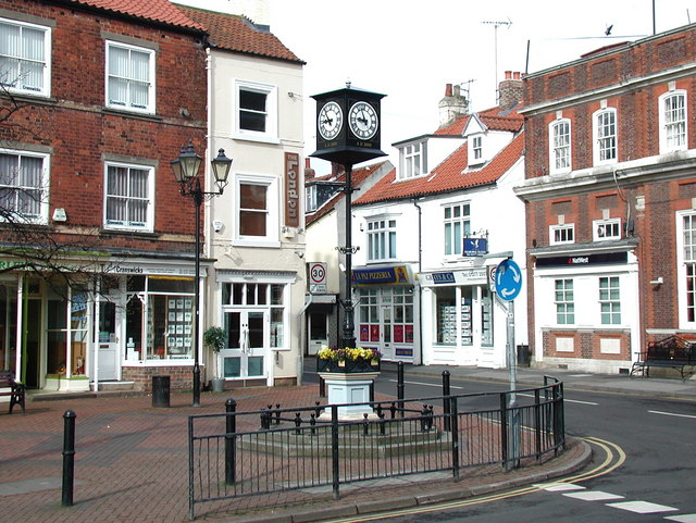 Market Place, Driffield, East Riding of Yorkshire, England. Looking west towards the millennium clock and Mill Street from the Bell Hotel.